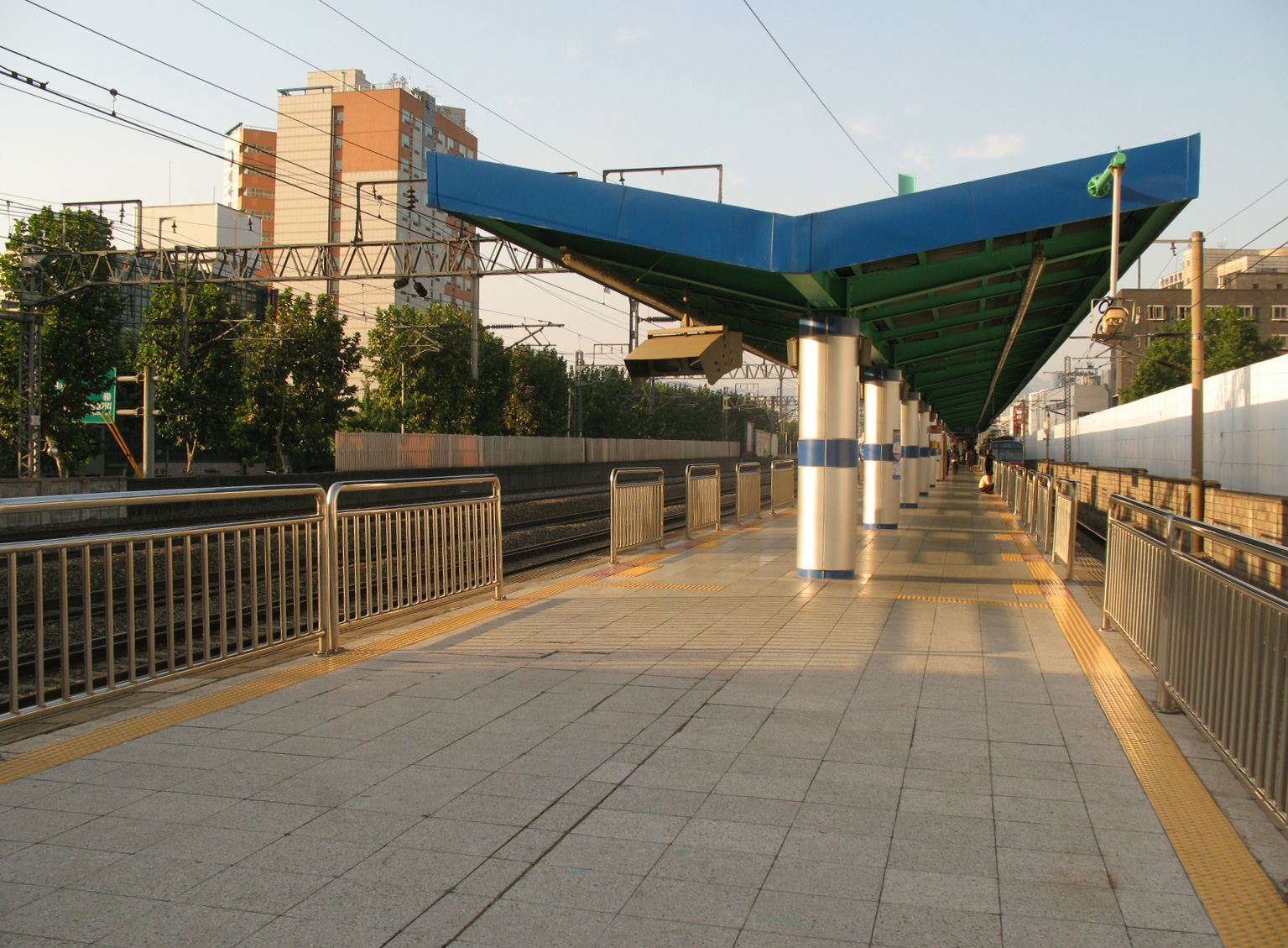 Namyeong Station platform.